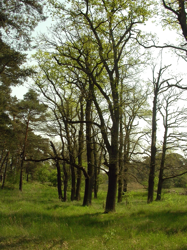 Quercus damaged by Melolontha hippocastani, Darmstadt, Germany